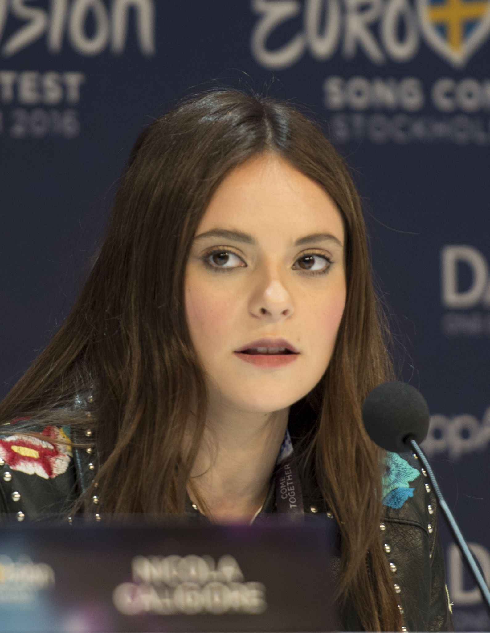 Francesca Michielin at a Meet & Greet during the Eurovision Song Contest 2016 Stockholm. (Help translate this text)